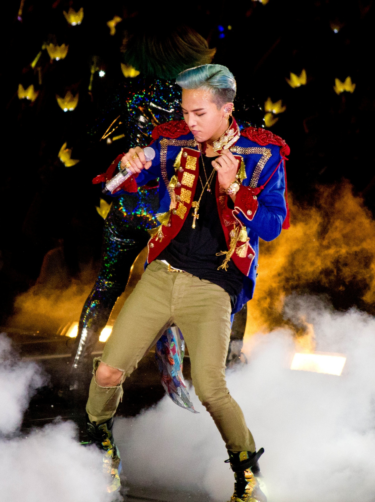 G-Dragon performing on Alive World tour